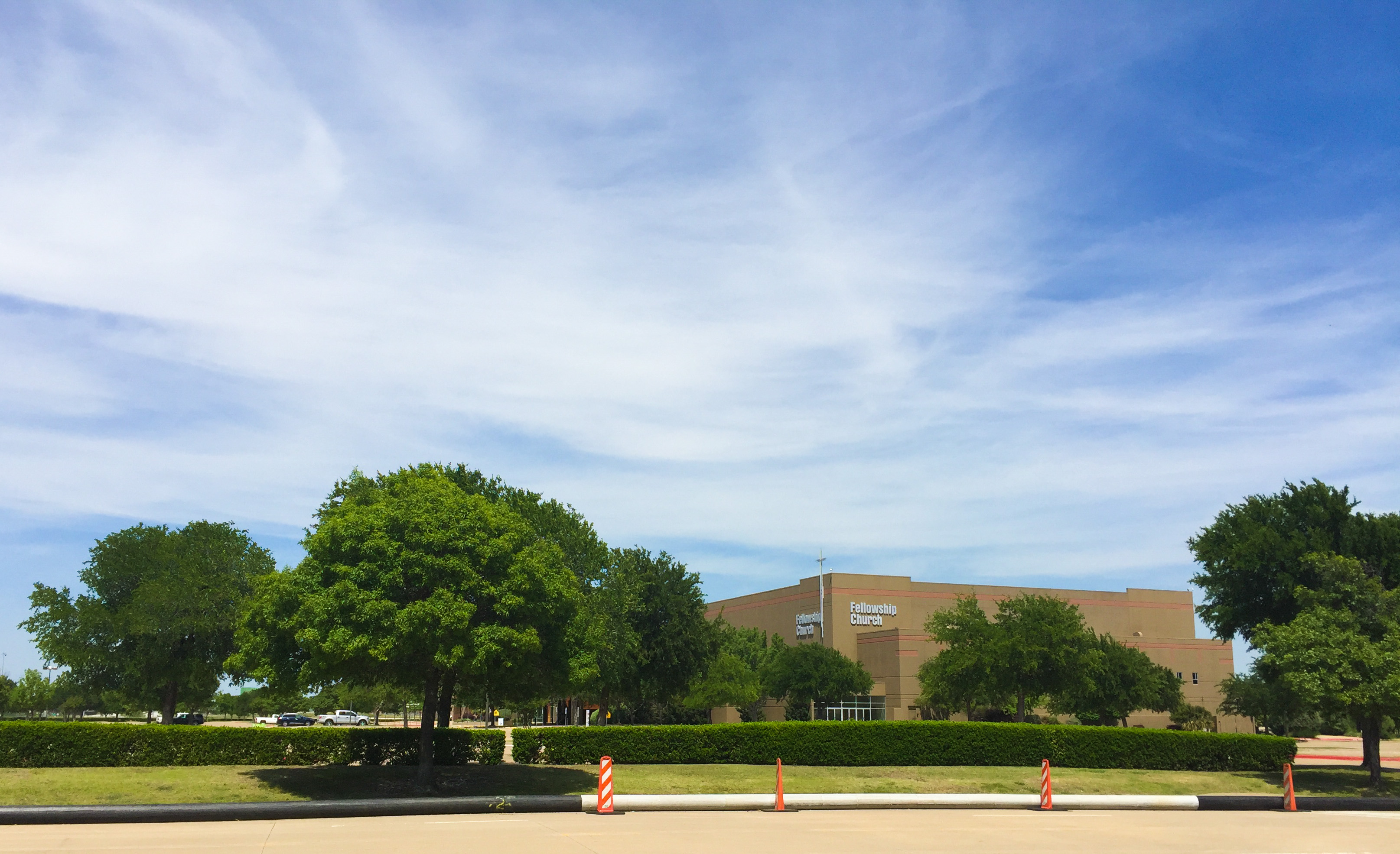 Fellowship Church in Grapevine, Texas, April 2018